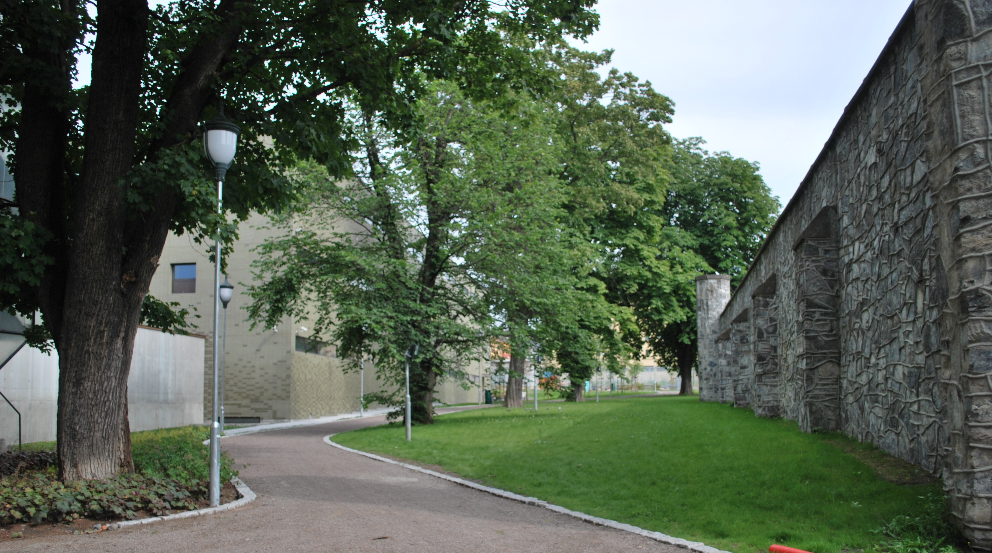 Grønlands park - Botsparken, Grønland Oslo, passage betwwen Oslo prison (right) and new Police central arrest (left)